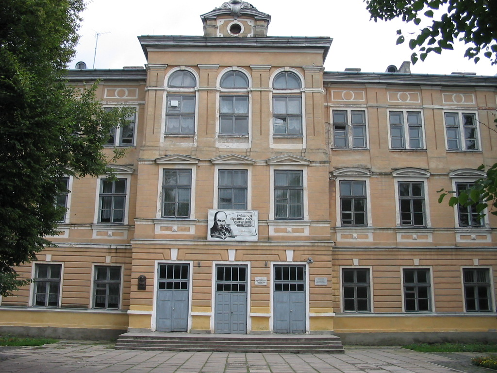 Brody Gimnasia (School), where Joseph Roth studied